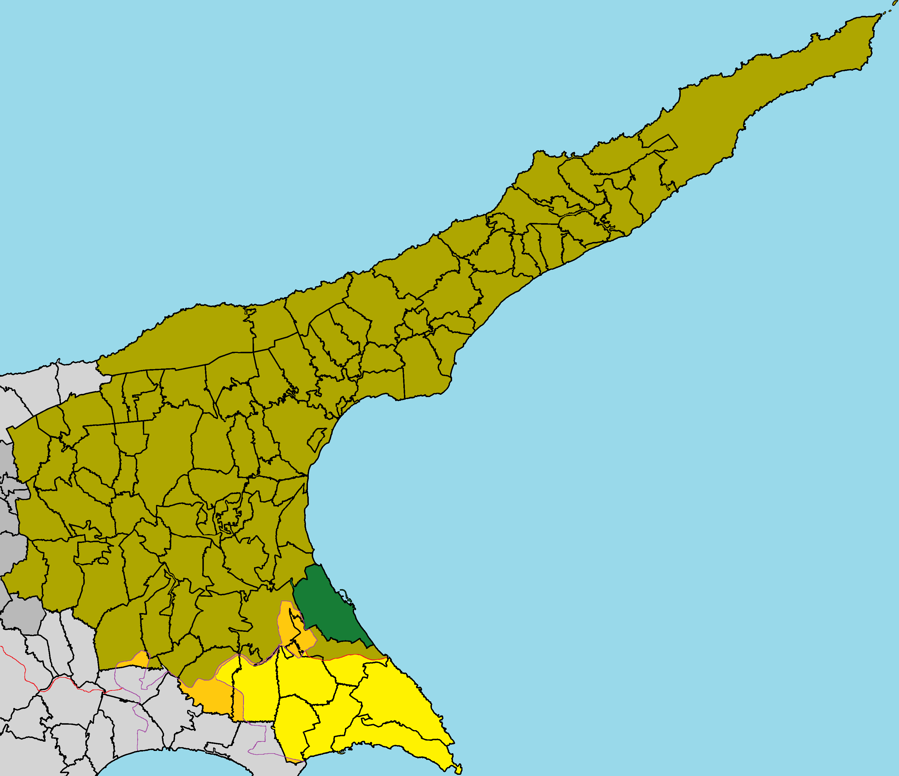 Famagusta Municipality in Famagusta District (de jure).